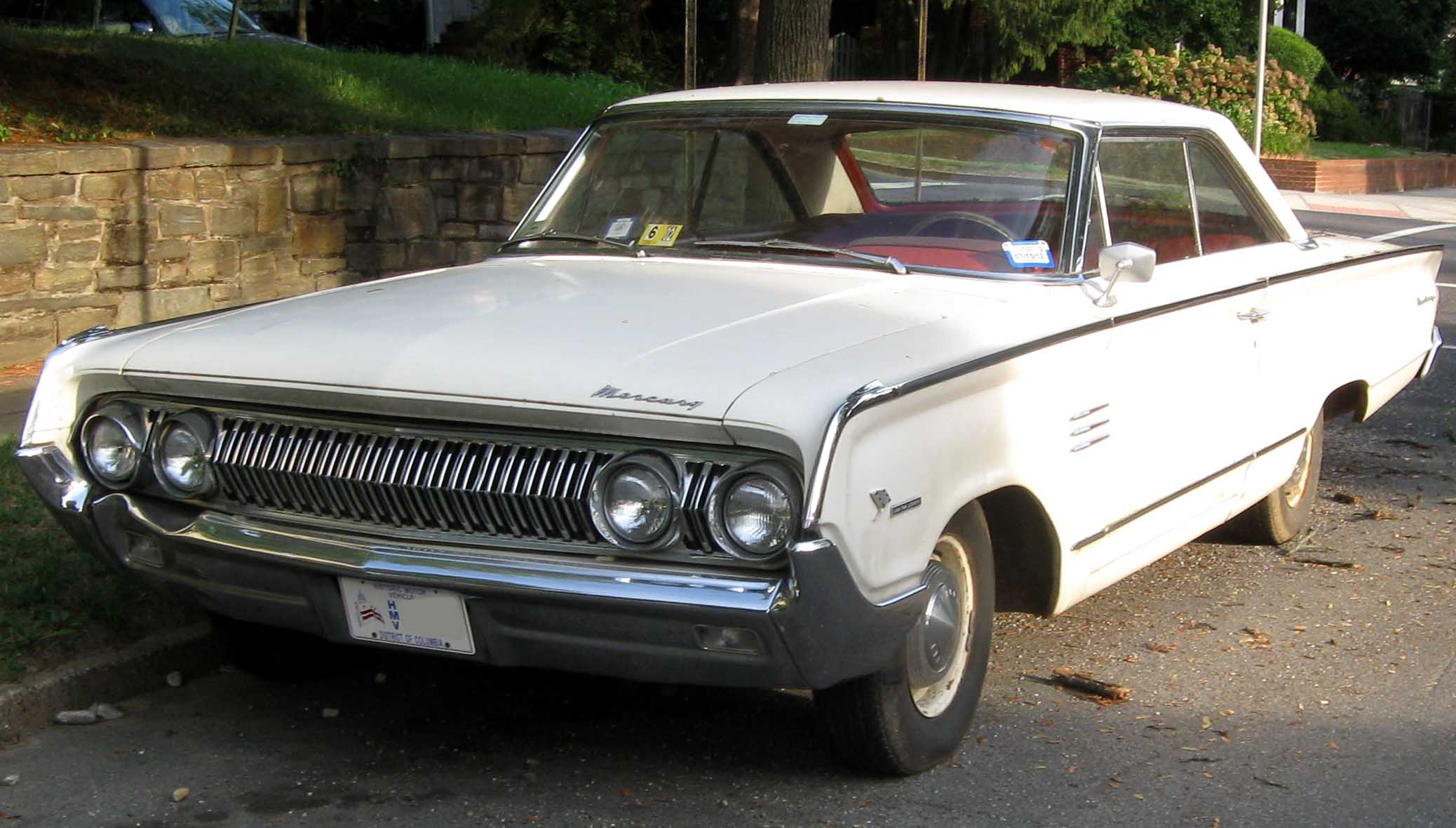 1964 Mercury Marauder photographed in Washington, D.C., USA.